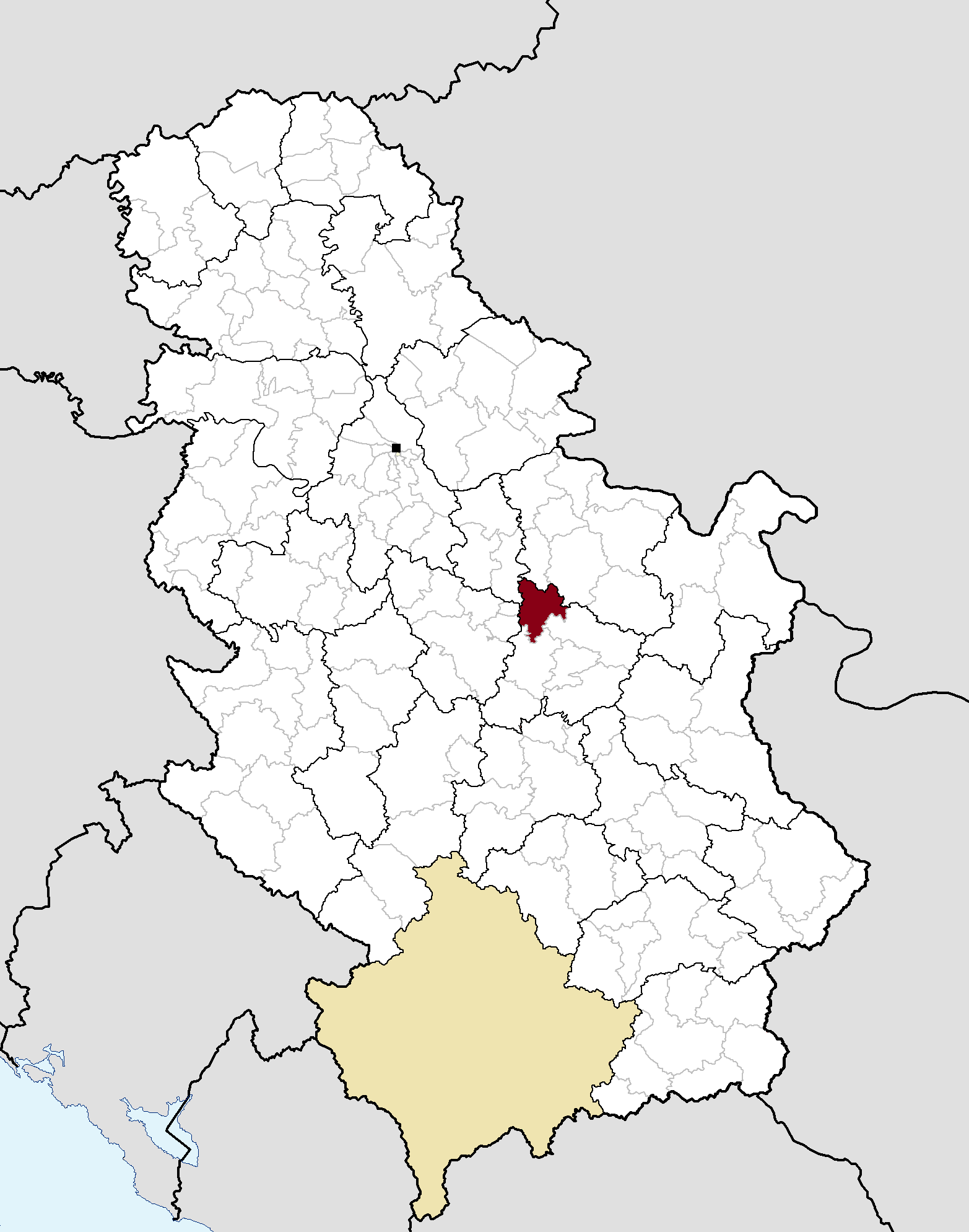 Municipal location in Serbia